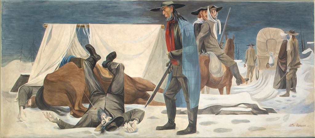 [History of San Francisco mural "Hardships on the Emigrant Trail" by Anton Refregier at Rincon Annex Post Office located near the Embarcadero at 101 Spear Street, San Francisco, California]